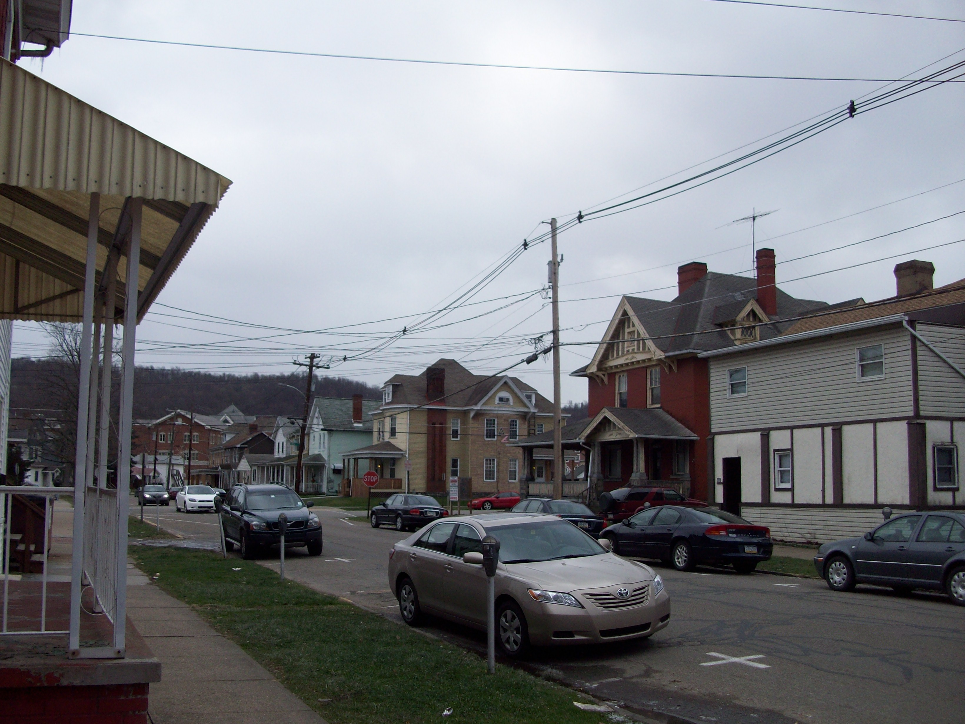 Near the university (which begins at the brick building in the background on the left), many large early-Twentieth Century houses have been converted into student apartments. California, Pennsylvania